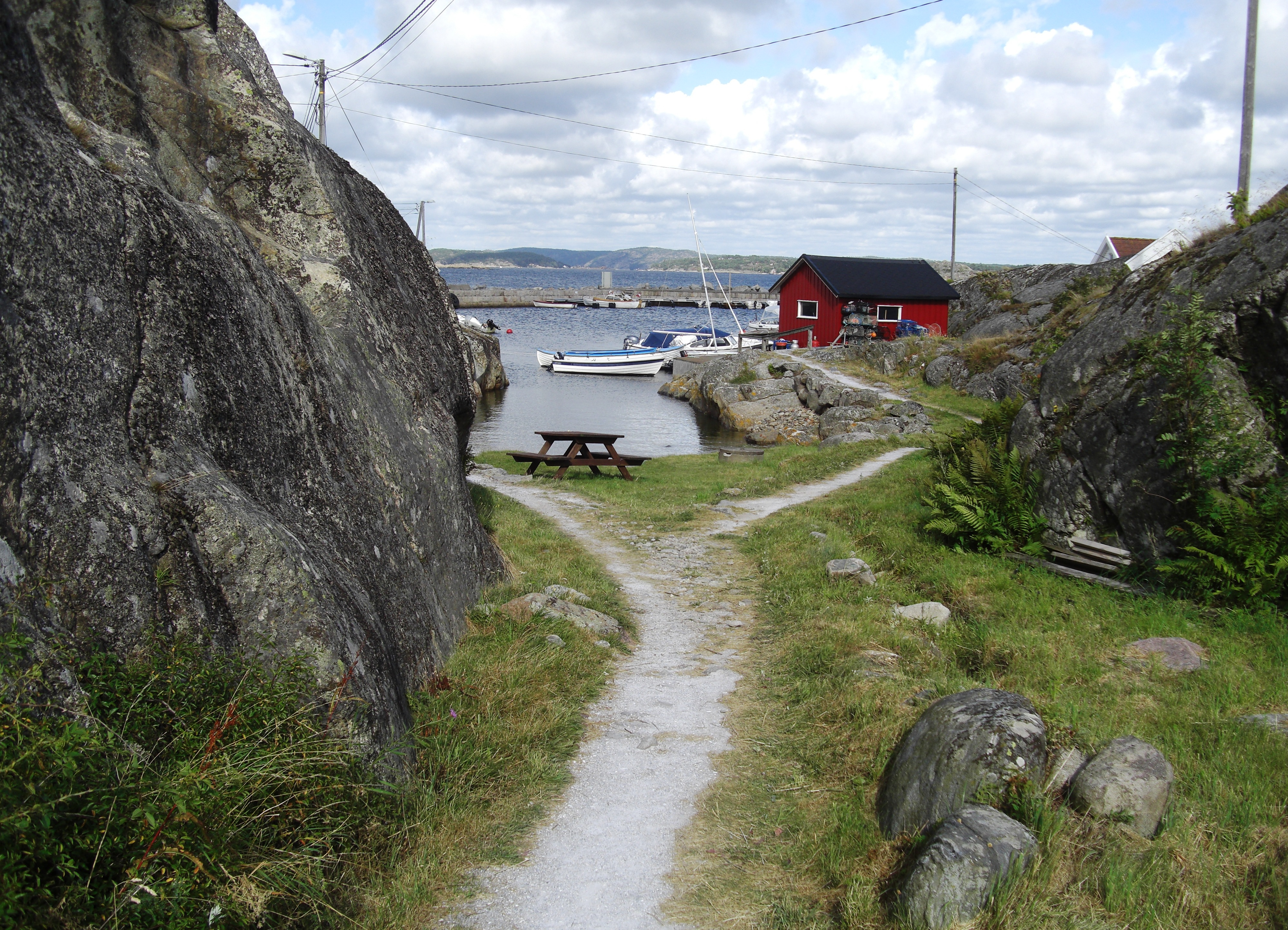 Lauer, Hvaler kommune